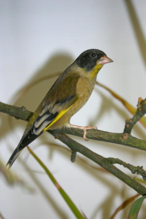 Black-headed Greenfinch Chloris ambigua, captive